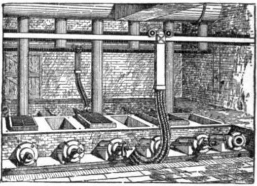 Cowles' electric smelting furnace at Cowles Syndicate Company, Limited, Stoke-on-Trent, England